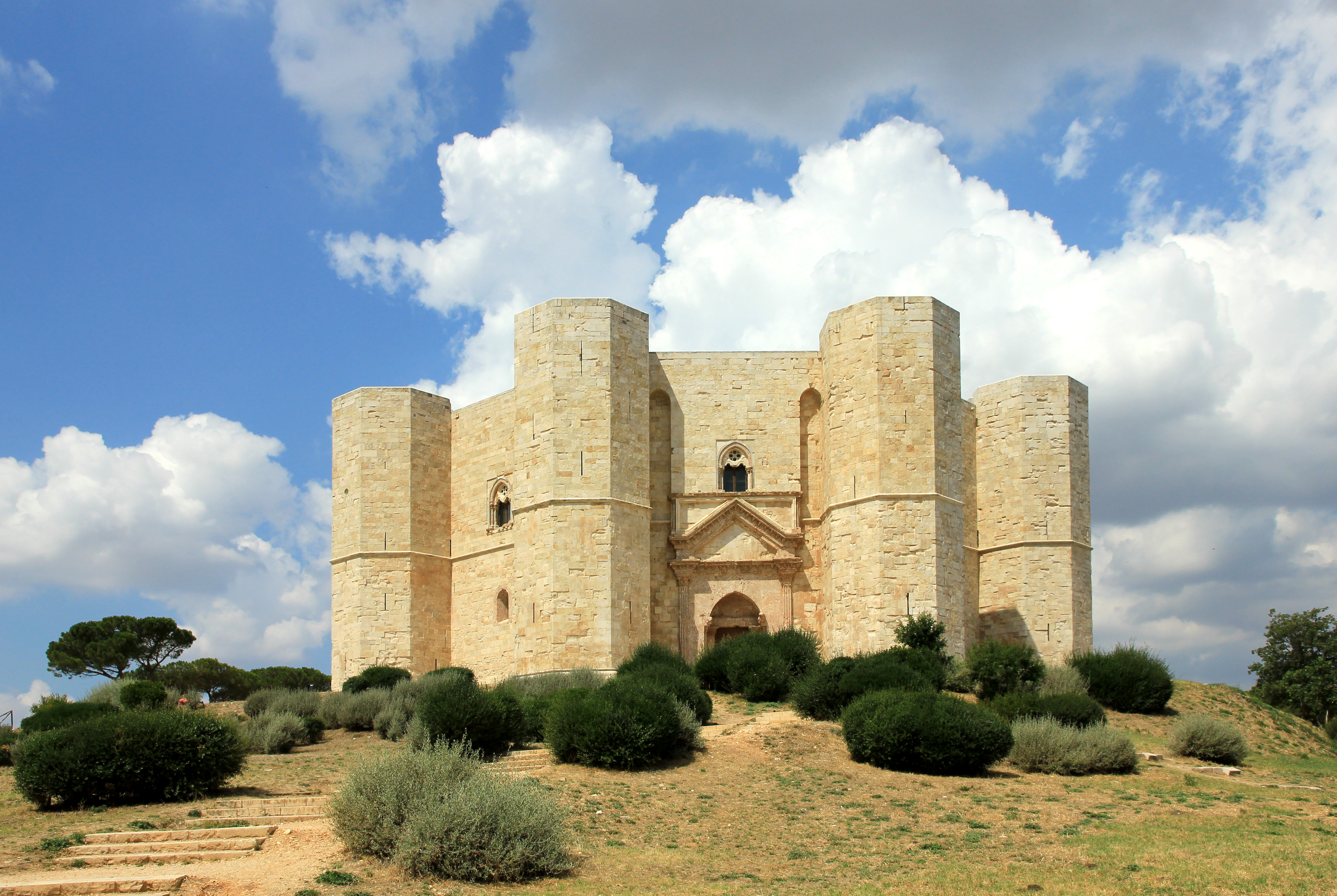 Castel del Monte